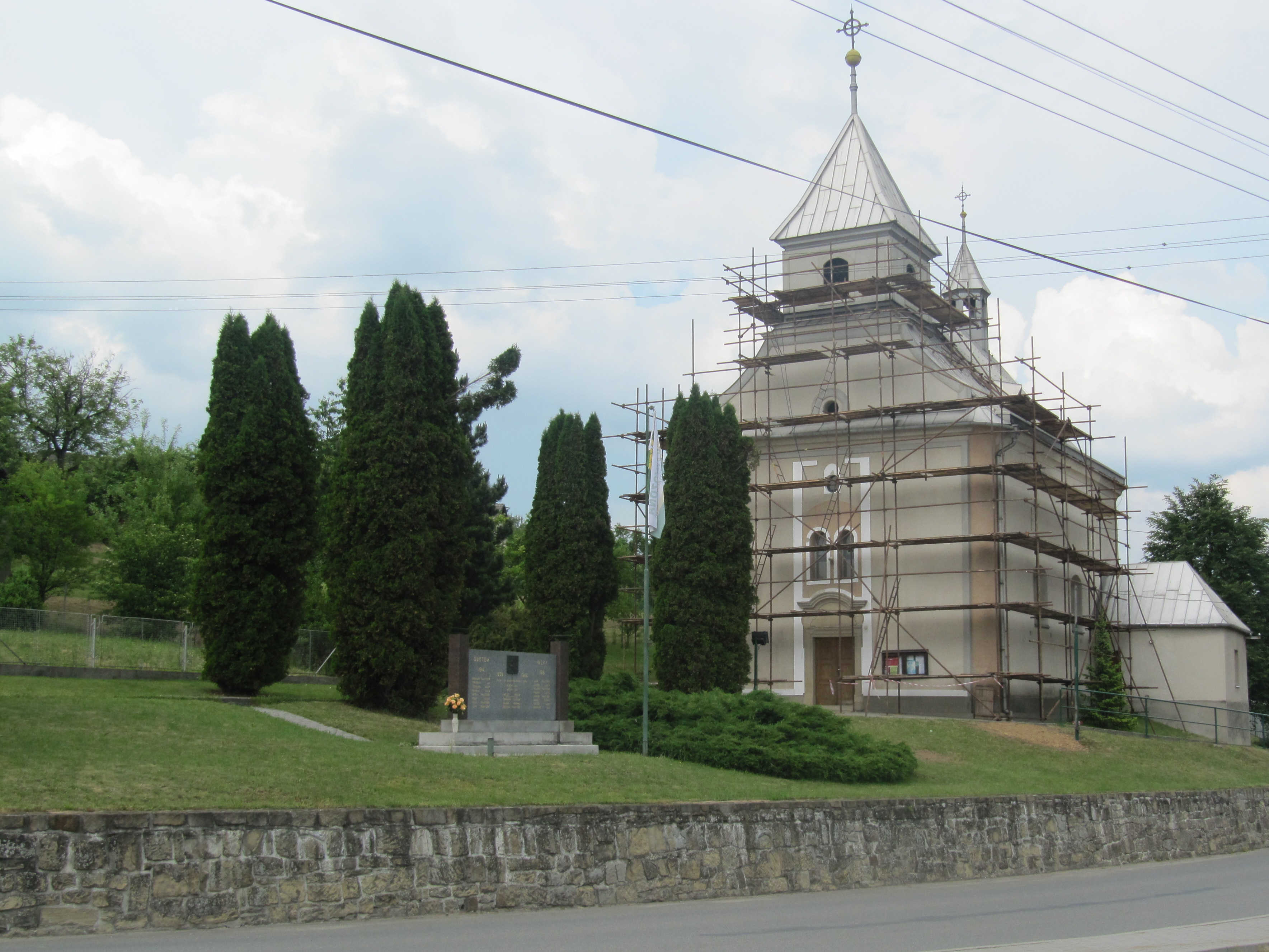 Hvozdná in Zlín District, Czech Republic. Church of All Saints. This photograph was taken within the scope of the third year of the 'Czech Municipalities Photographs' grant.